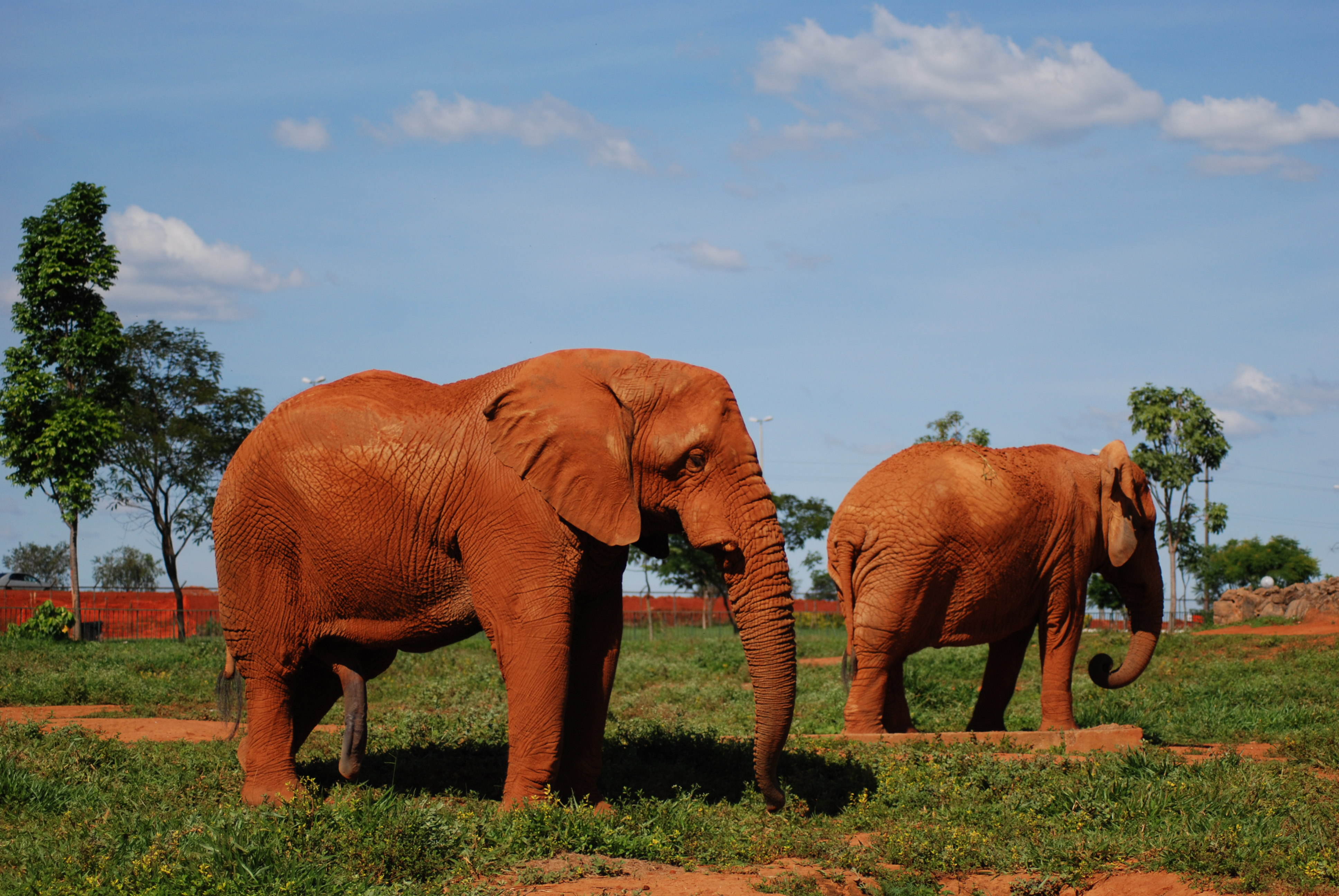 Unfortunately (to him), he did not get lucky today.